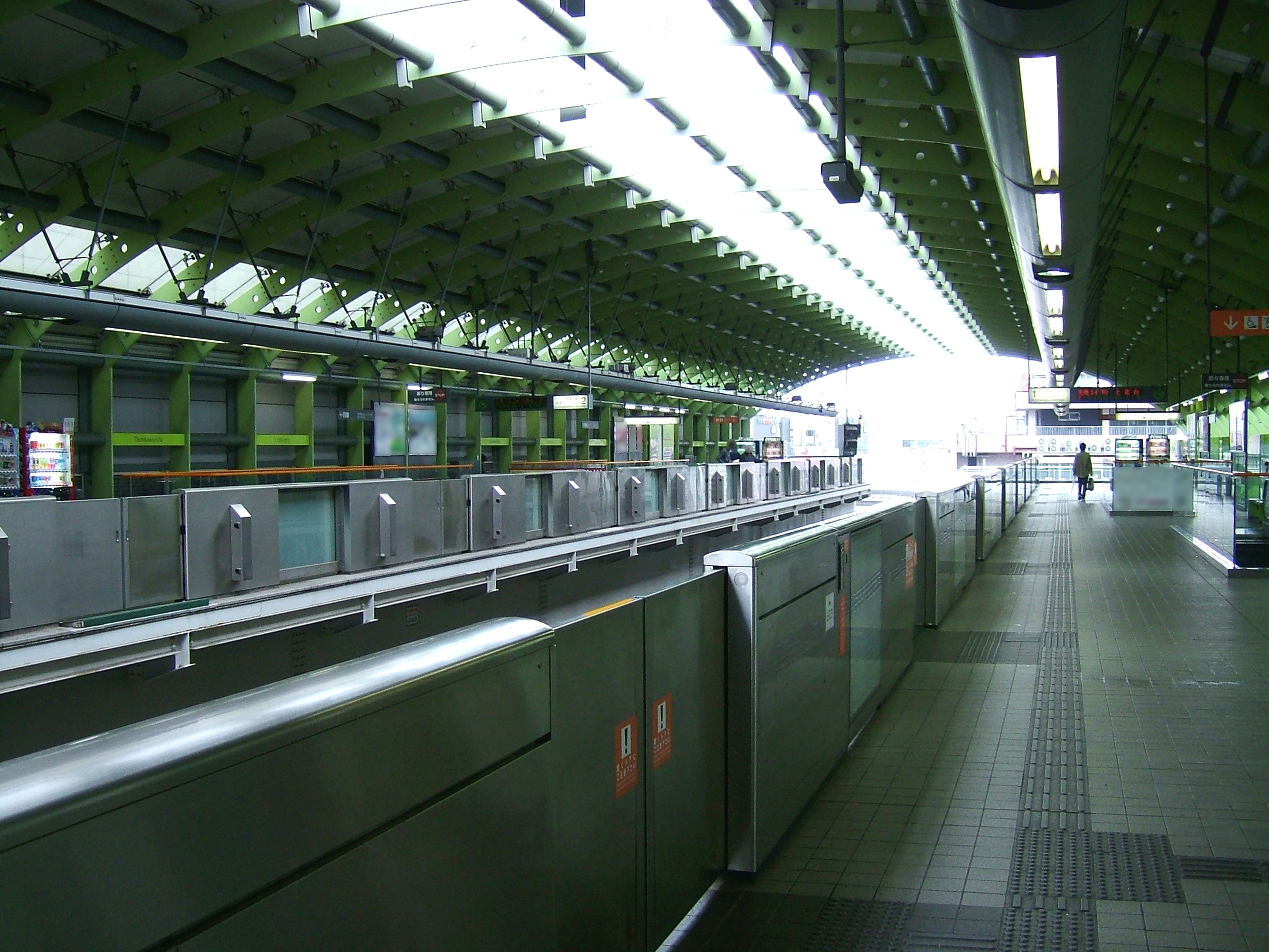 The platforms at Tachikawa-Kita Station on the Tama Toshi Monorail in Tachikawa city, Tokyo, Japan